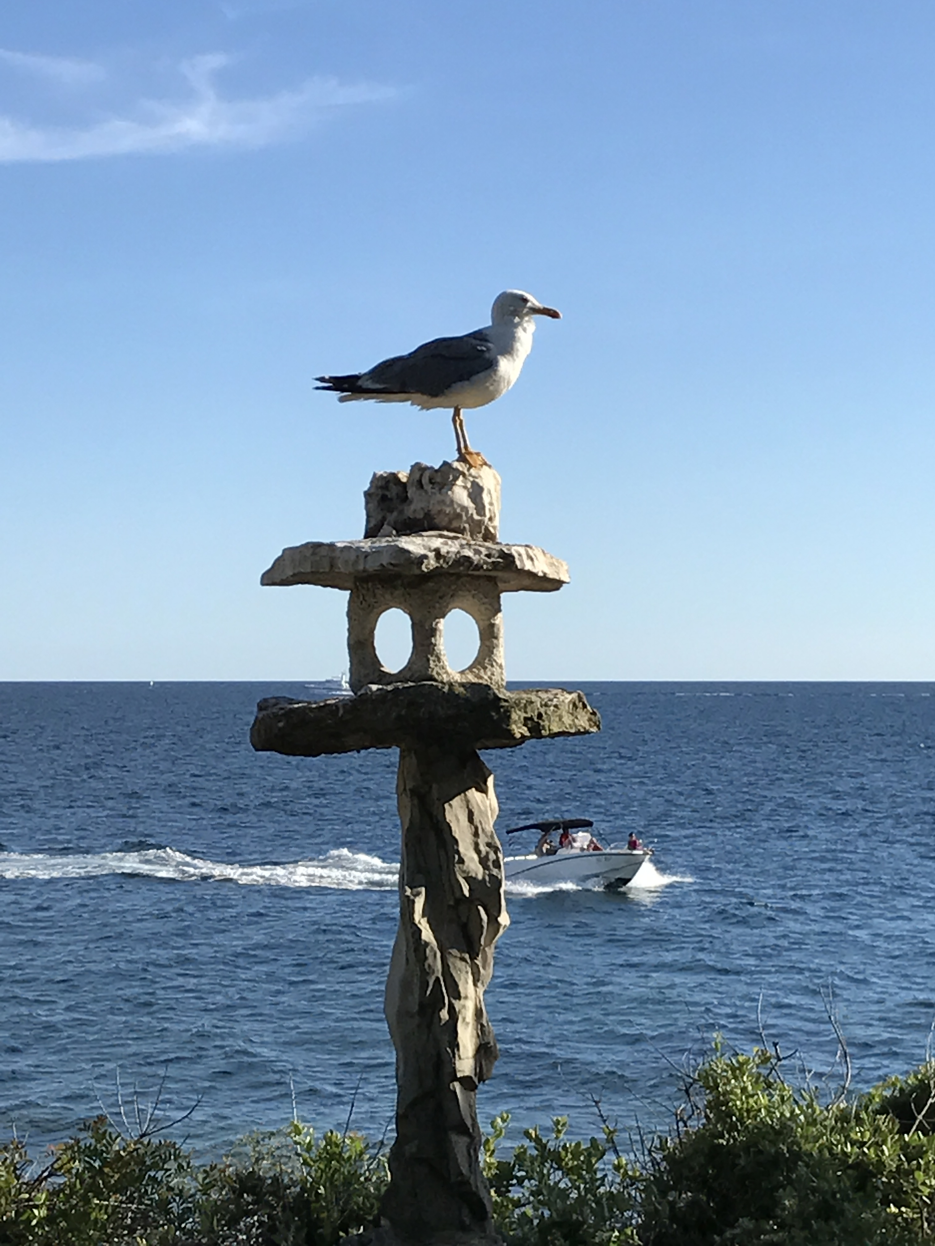 Red island near Rovinj